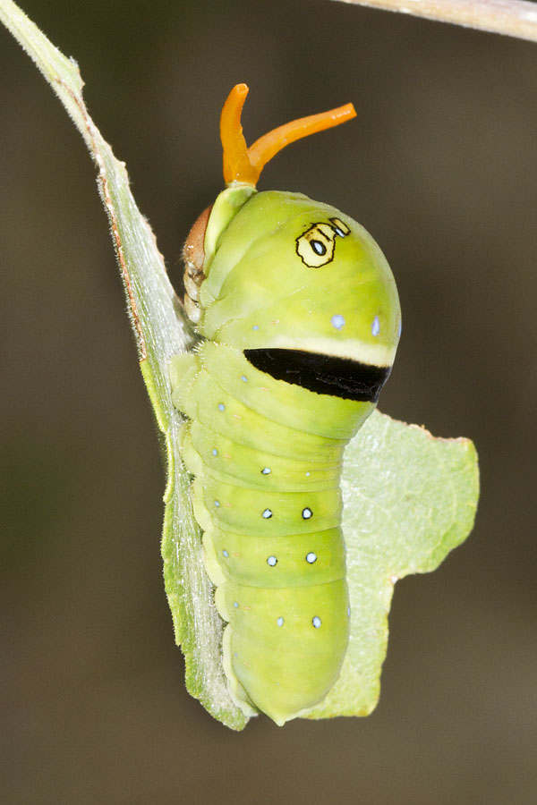 Compare with adjacent image in Flickr photostream. In this image, the animal has reared up "threateningly, and has extended its (orange) osmeterium. This is an organ that emits odorous compounds containing terpenes thought to disuade predators. Box Canyon, Pima Co., AZ, USA